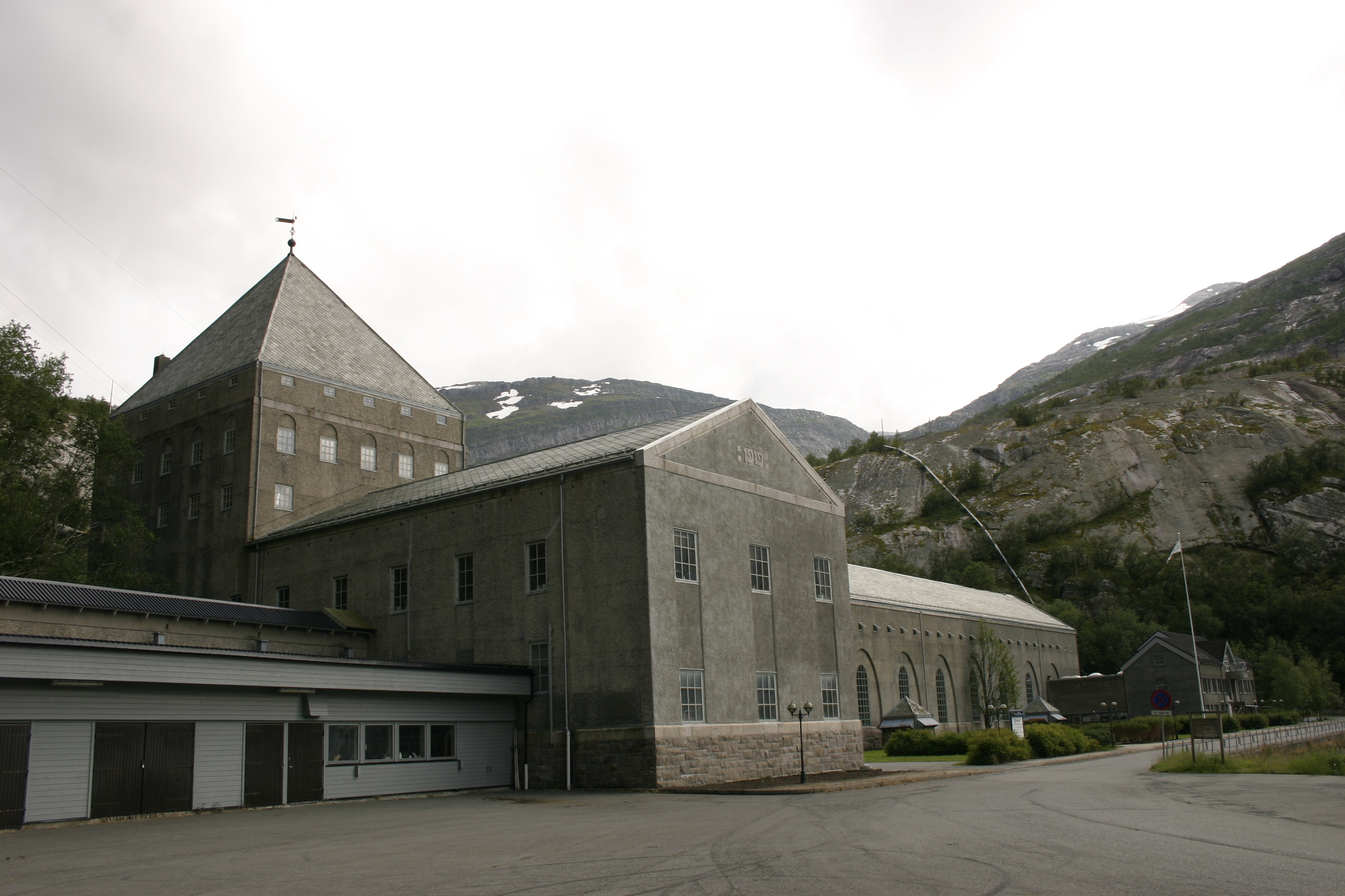 Glomfjord's hydroelectric power plant in Norway. Photo was taken in afternoon, 2008-07-18.